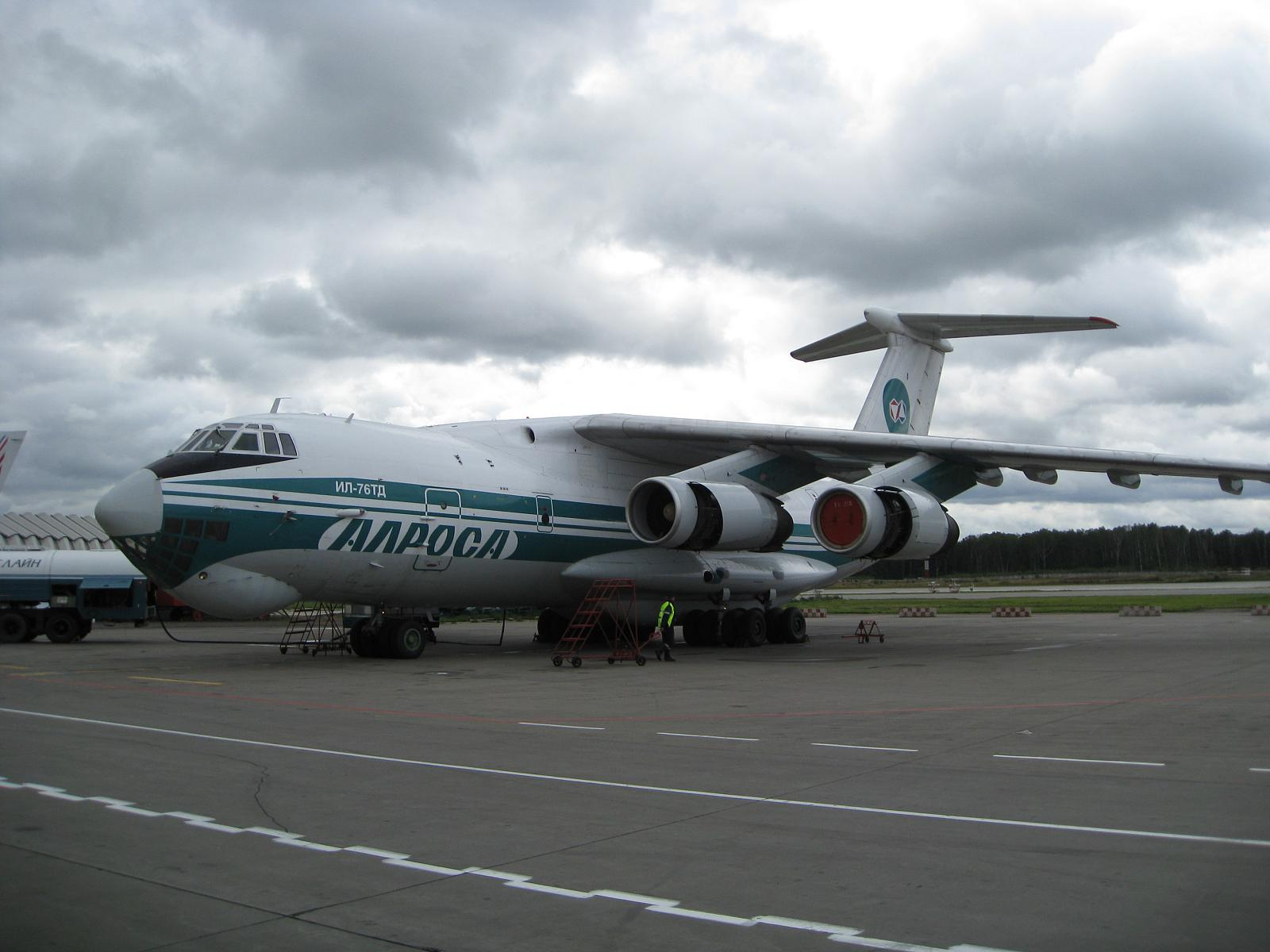 An Ilyushin Il-76, Domodedovo Airport